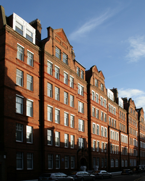 1-14b Kensington Court Gardens, London. T.S.Elliot lived and died here.